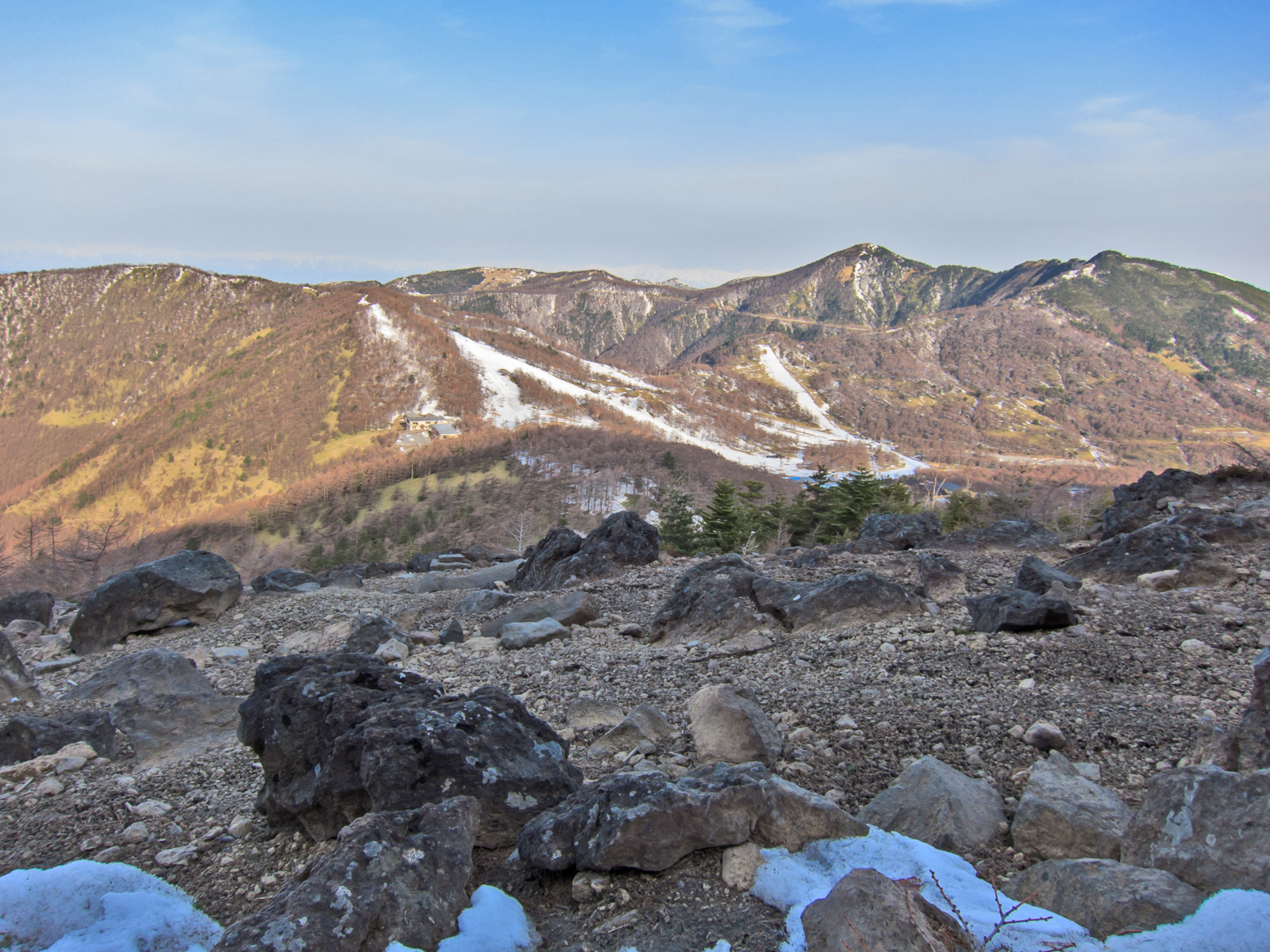 The WNW view from nearby Kurumazaka Pass.